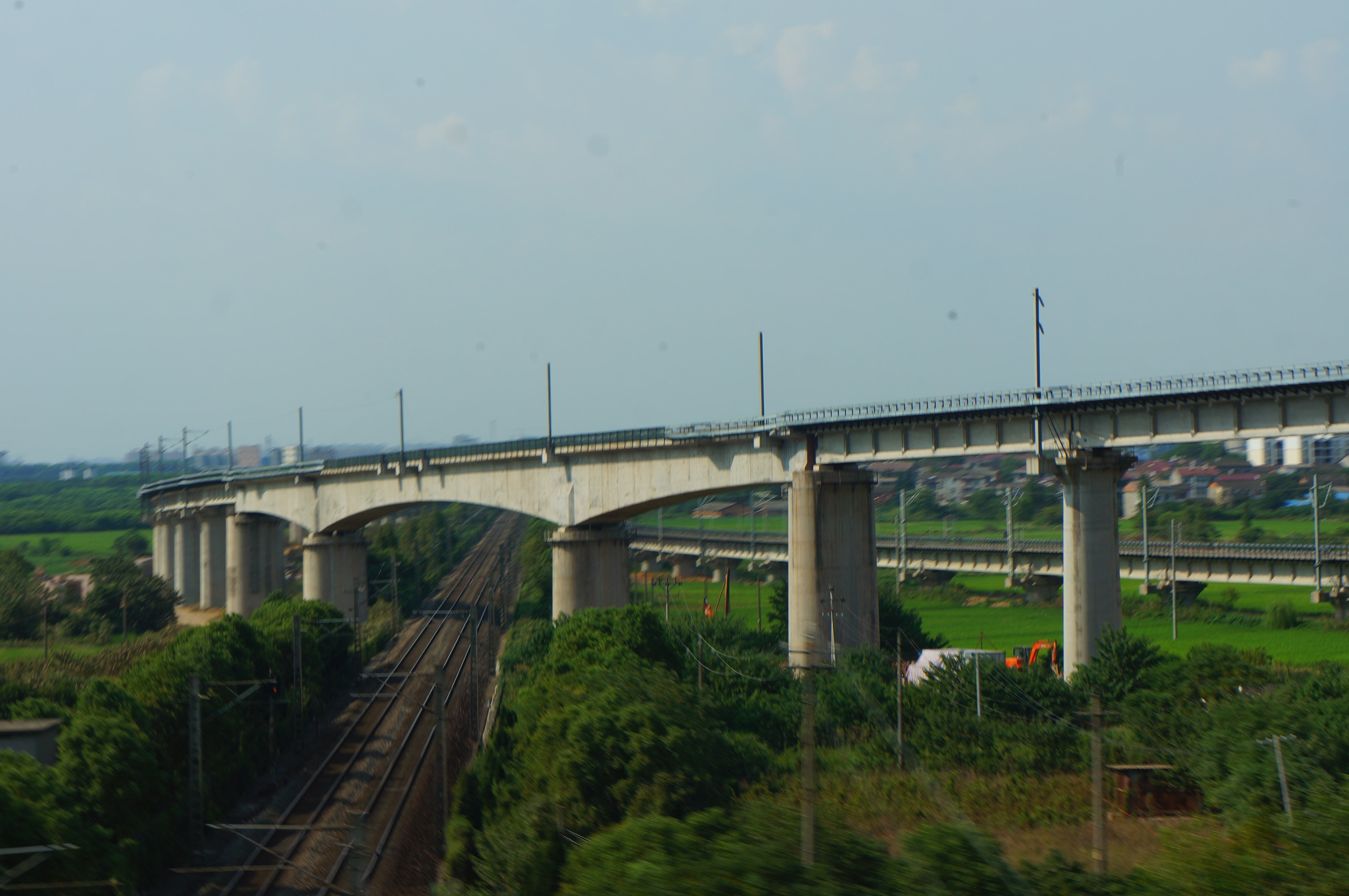 201608 Nanchang Connector line from Henggang to Hangzhou–Changsha HSR and Beijing Kowloon Railway